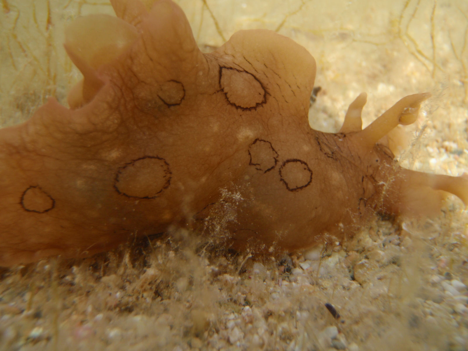 A side view of Aplysia dactylomela